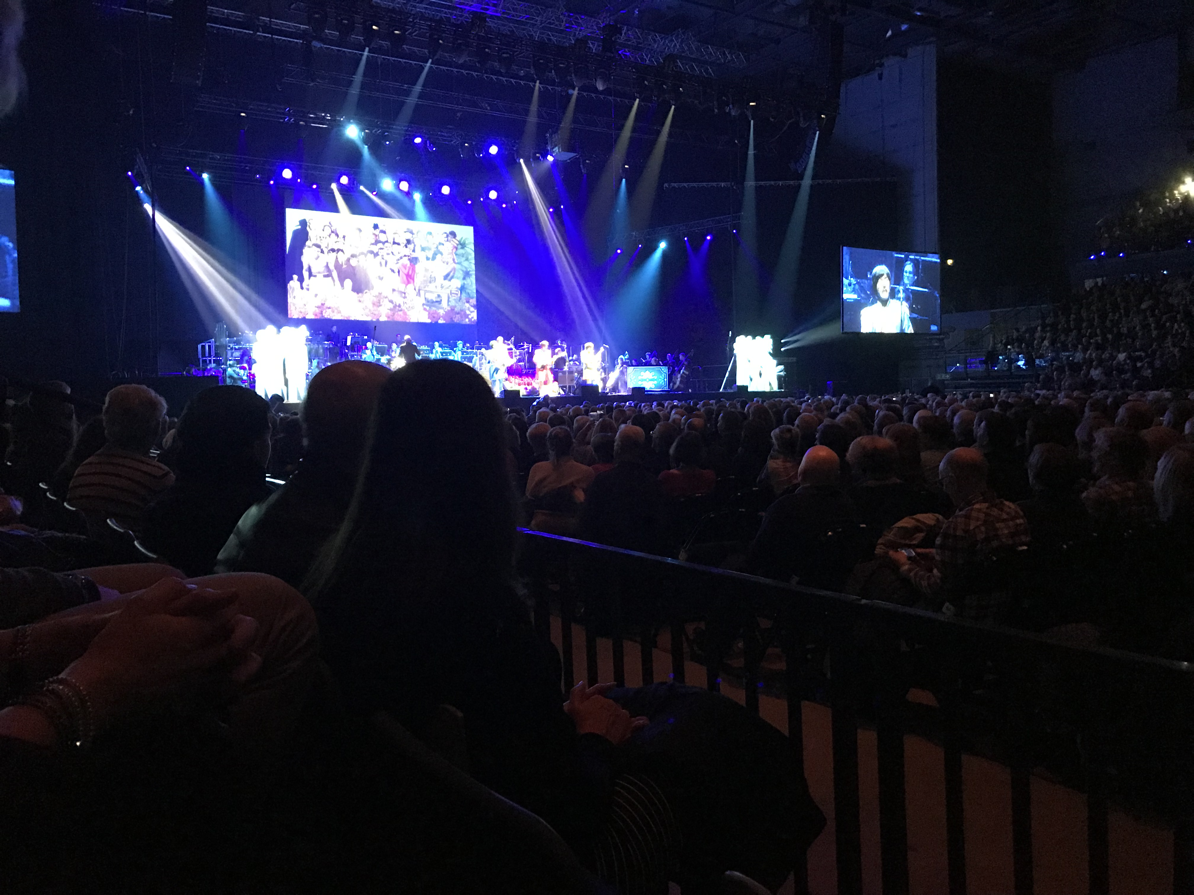 With Royal Liverpool Philharmonic Orchestra performing Nigel Osborne's arrangements. Other information This is from the live concert at Echo Arena stadium in Liverpool, by the Bootleg Beatles performing Nigel Osborne's arrangements of Sgt. Pepper's Lonely Hearts Club Band album with the Royal Liverpool Philharmonic Orchestra